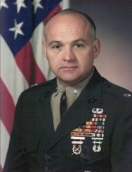 William R. Higgins, USMC (1945-1990) Official U.S. Marine Corps photograph Source: "Our Namesake", USS Higgins website, United States Navy. URL